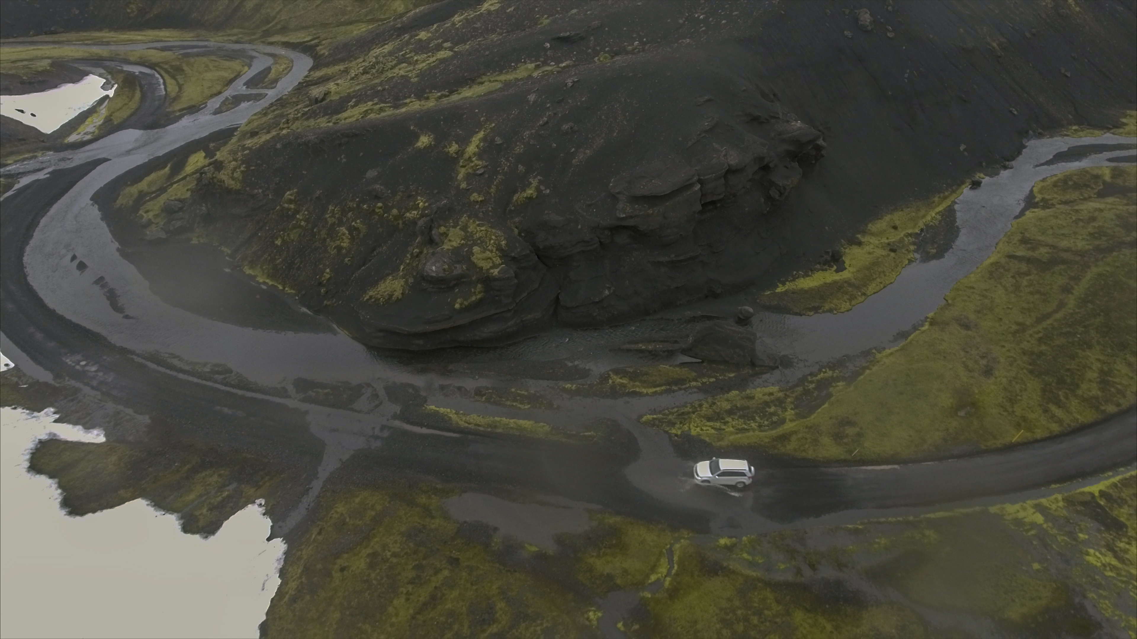 Fjallabaksleið nyrðri(F208) road "Behind the mountains" (Iceland)